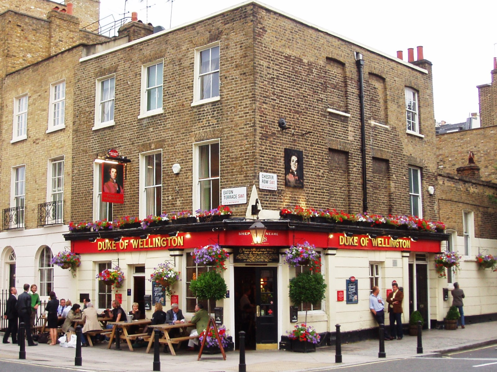 Shepherd Neame pub not too far from Sloane Square. Address: 63 Eaton Terrace (formerly Coleshill Street). Owner: Shepherd Neame (website). Links: Randomness Guide to London Fancyapint Beer in the Evening Dead Pubs (history)